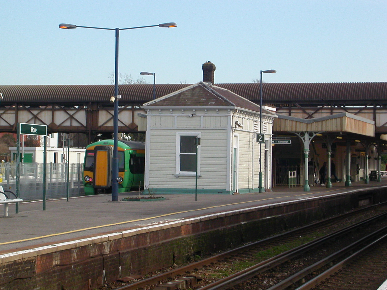 View of Hove station Platforms 1 and 2 (west end), from Platform 3. Photographed on 17th February 2007.